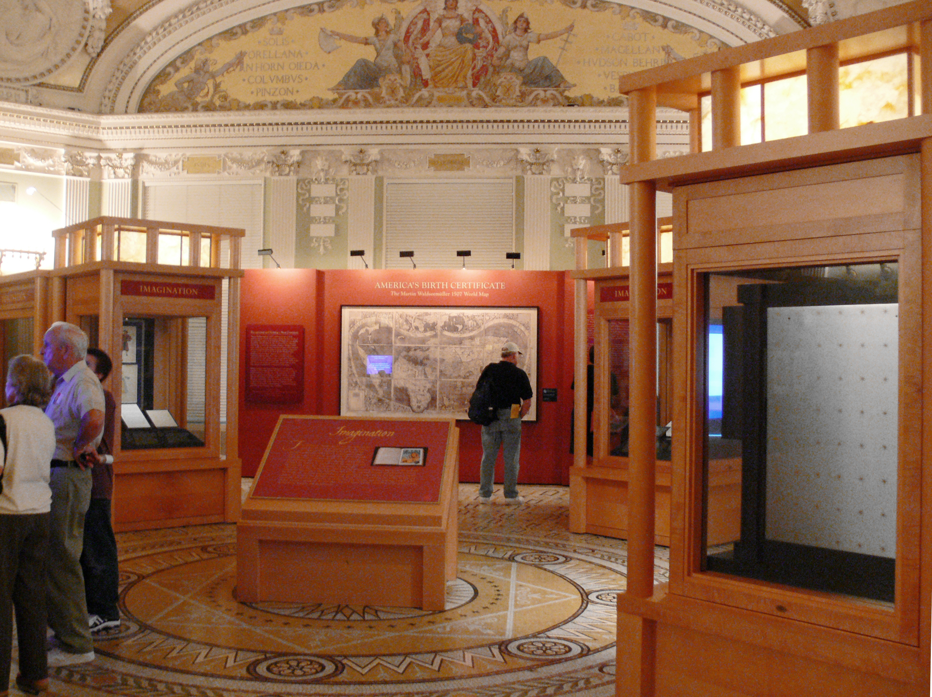 a facsimile copy of Martin Waldseemüller's map, on display in the Treasures Gallery, Library of Congress (Jefferson Building), Washington, D.C.